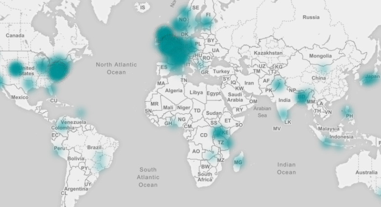 Missing maps mapathons 2016 November This map may be incomplete, and may contain errors. Don't rely solely on it for navigation.